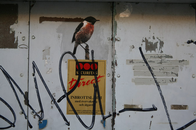 streetart by Erik Berglin and John Skoog